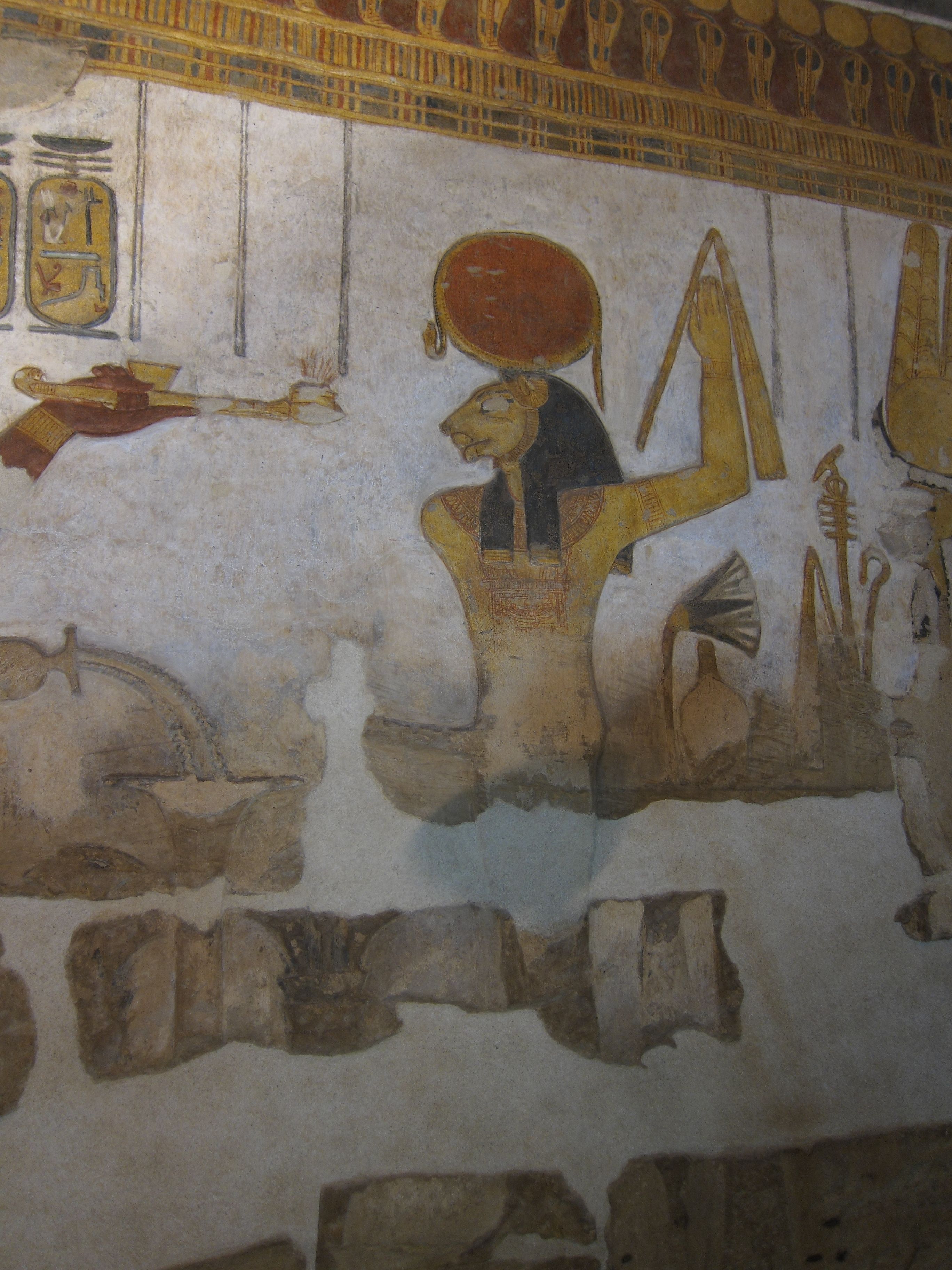 Relief from the Sanctuary of Khonsu Temple in the Precinct of Amun-Re at Karnak Temple - Representing a Sekhmet like character or deity (cfr Ithyphallic representation)